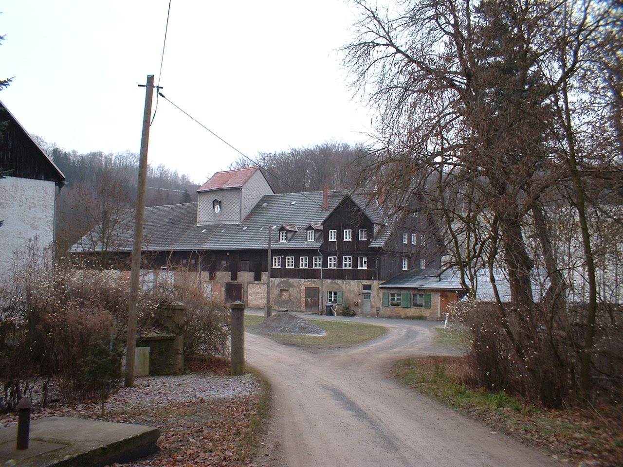 Hammergut Haselhof in the Gottleubatal, Saxony